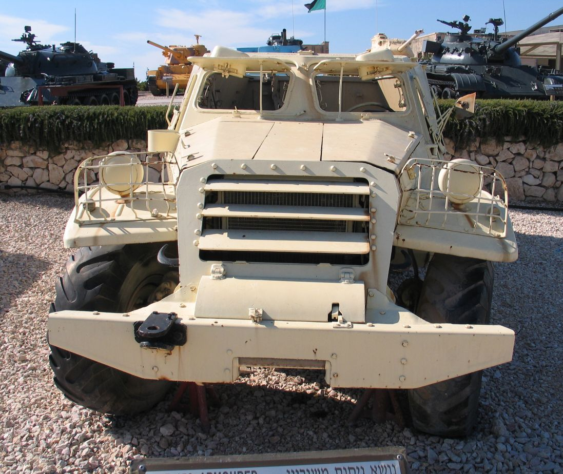 Description: BTR-152 APC in Yad la-Shiryon Museum, Israel. 2005. Source: Photo by me, User:Bukvoed